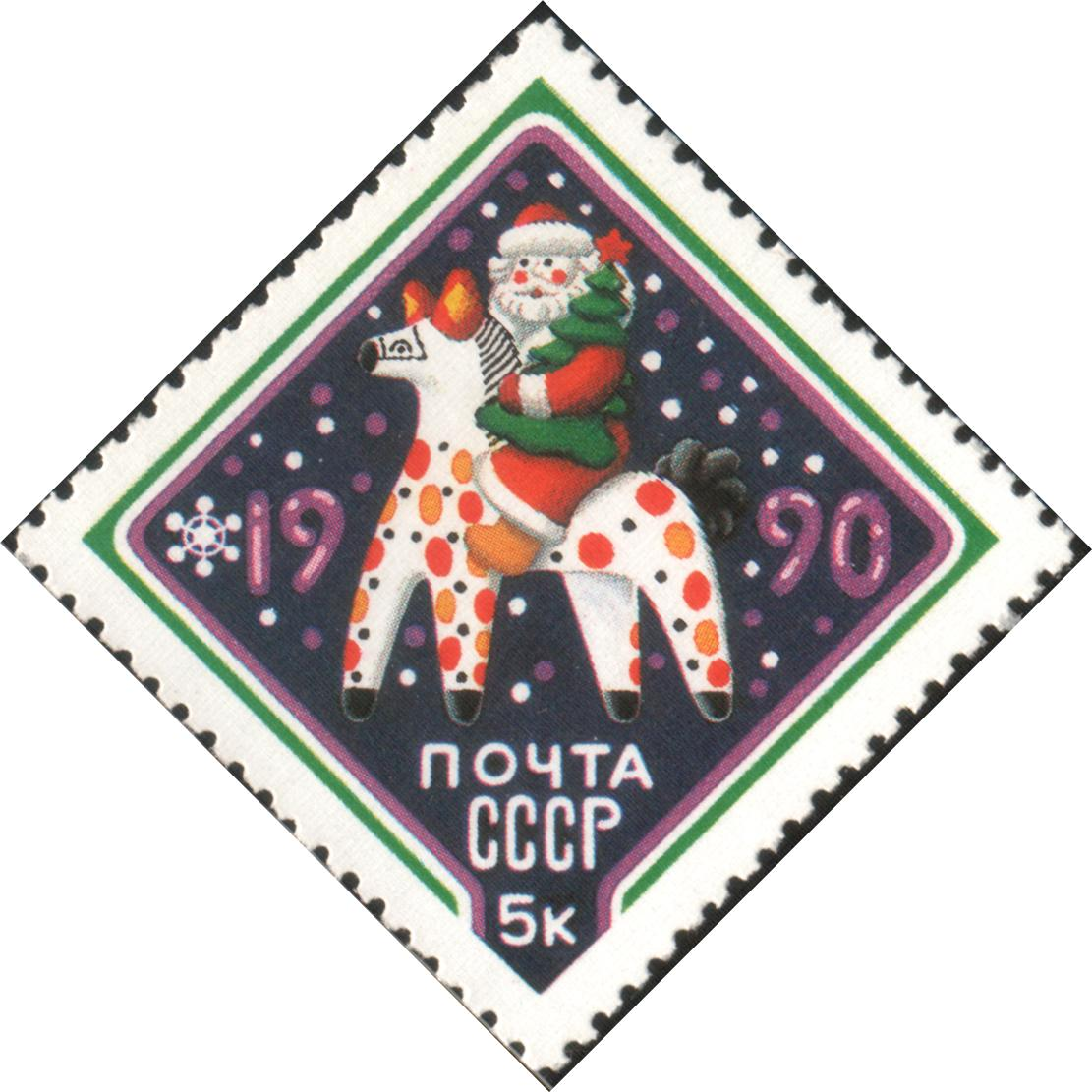 A USSR stamp, Happy New Year, designer V. Hramov Perf. 11 3/4 Father Frost on the horse (Dymkovo toy) Value: 0,05